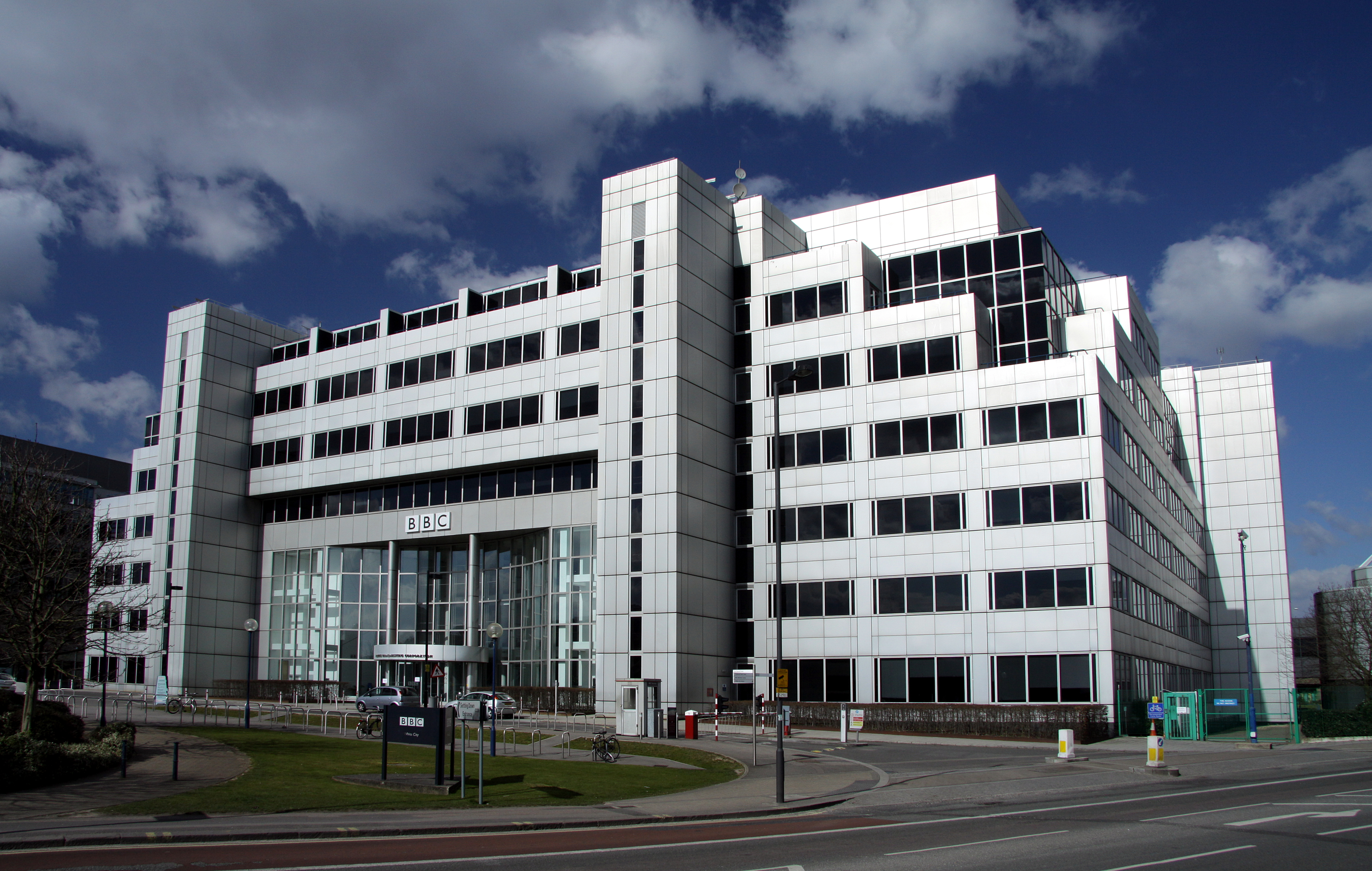 Buidling of BBC White City in London, England, Great Britain - Google Maps - Google Earth